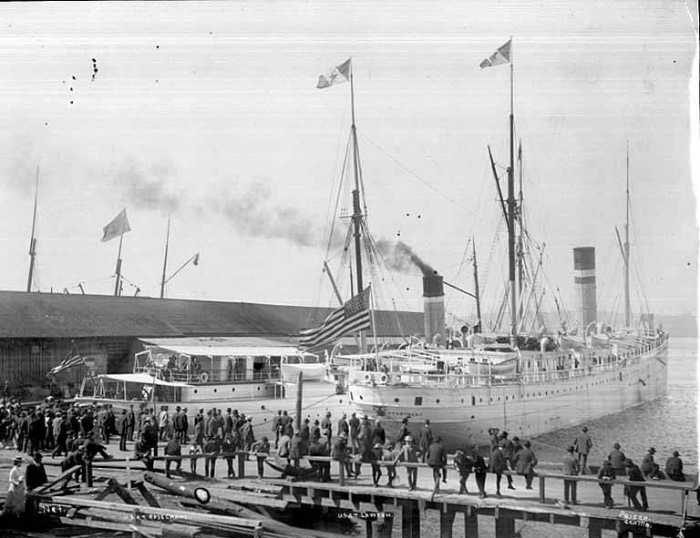 Part of a series depicting troops assembling at Fort Lawton and Seattle before embarking to China for the Boxer Rebellion . Caption on image: U.S.A.T. Rosecrans. U.S.A.T. Lawton. No 1. Peiser. Seattle . Peiser 10149 Subjects (LCTGM): Waterfronts--Washington (State)--Seattle; Piers & wharves--Washington (State)--Seattle; People--Washington (State)--Seattle